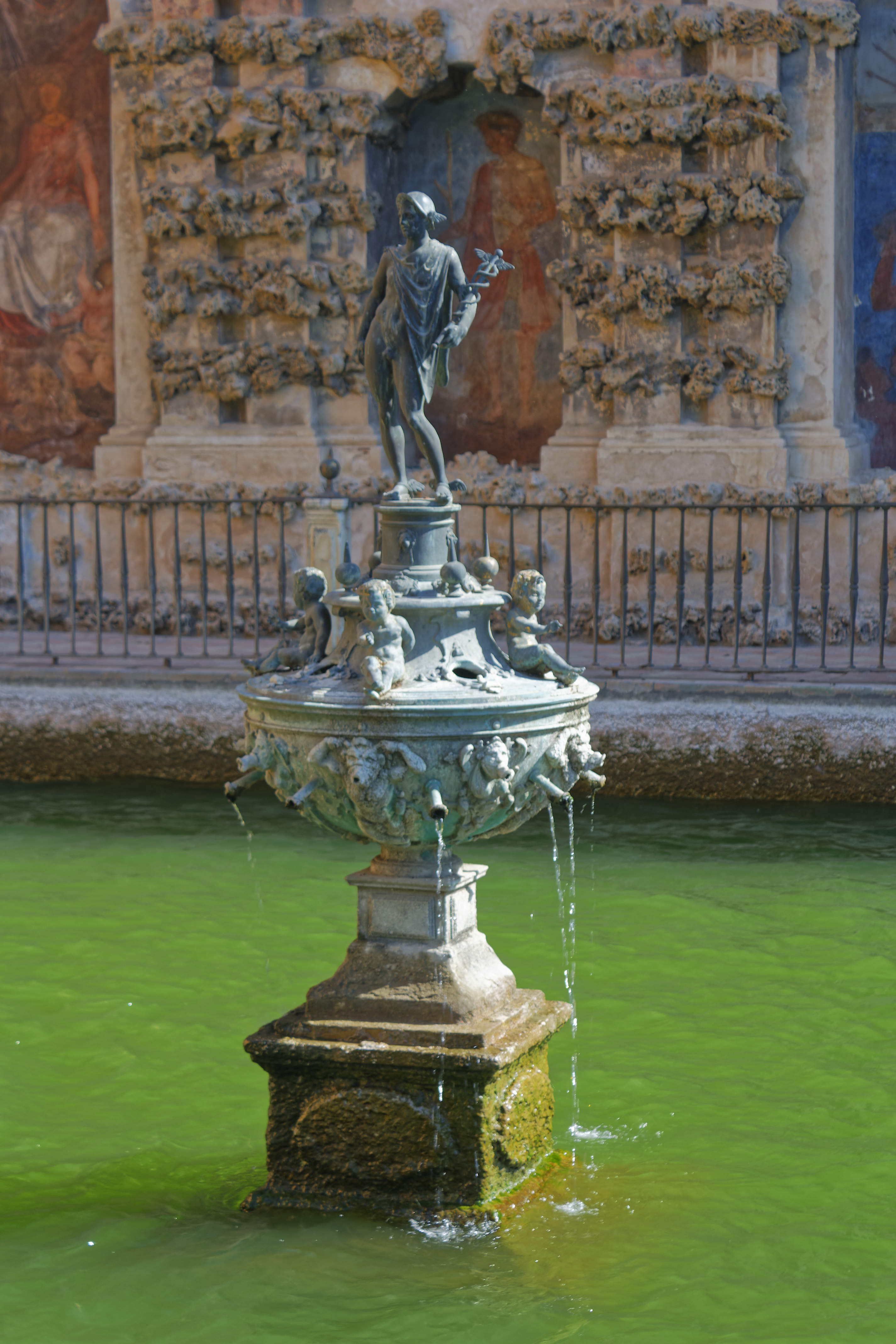 The statue of Mercury is the work of Diego de Pesquera, cast by Bartolome Morel in 1576.